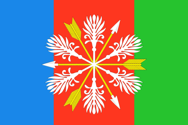 Flag of Chyormoz, Perm Territory, Russia